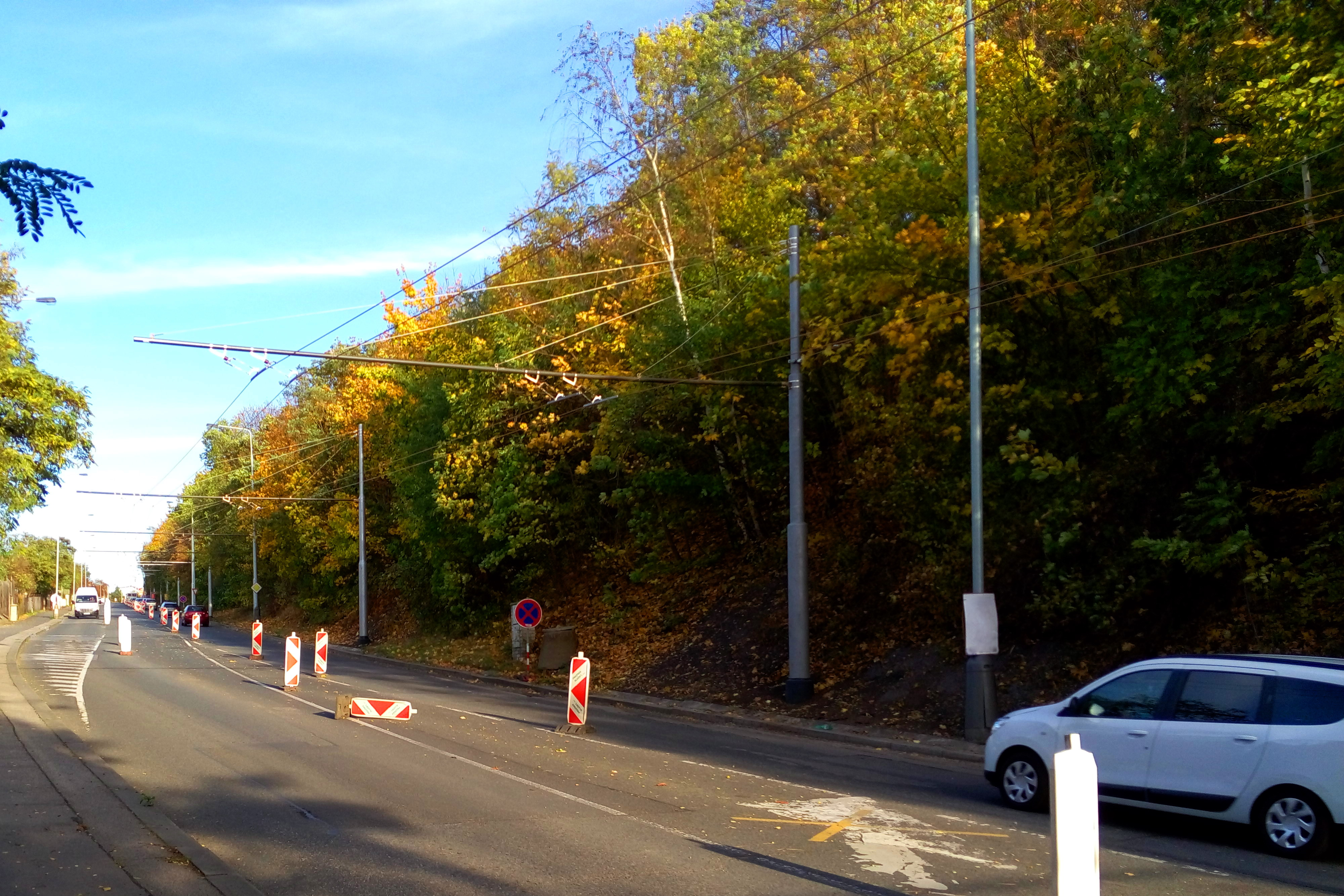 Trolleybus line above Prosecká street in Prague - as was on 12th October 2017 (before it was put into operation)